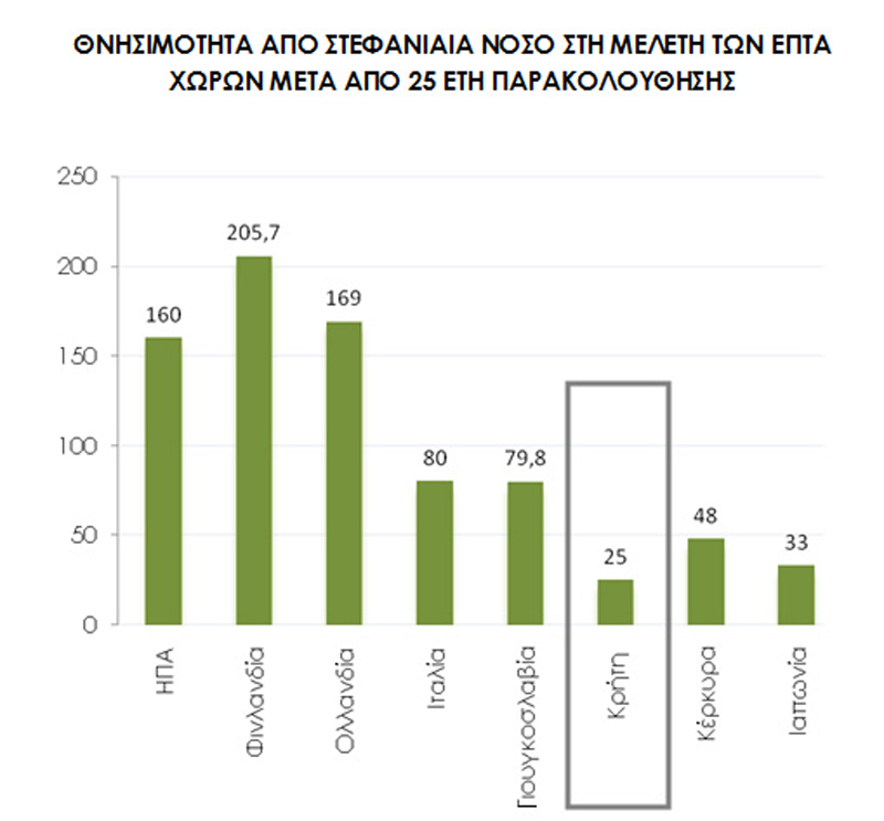 Mortality due to coronary disease per 1.000 individuals in the populations examined in the Study of Seven Countries, after 25 years of observation. The average mortality is provided for two populations from Finland, three populations from Italy, 5 populations from Yugoslavia and 2 populations from Japan. None of the other populations presented a lower mortality compared to Crete. In the United States, as well as in Holland, only one population was studied.